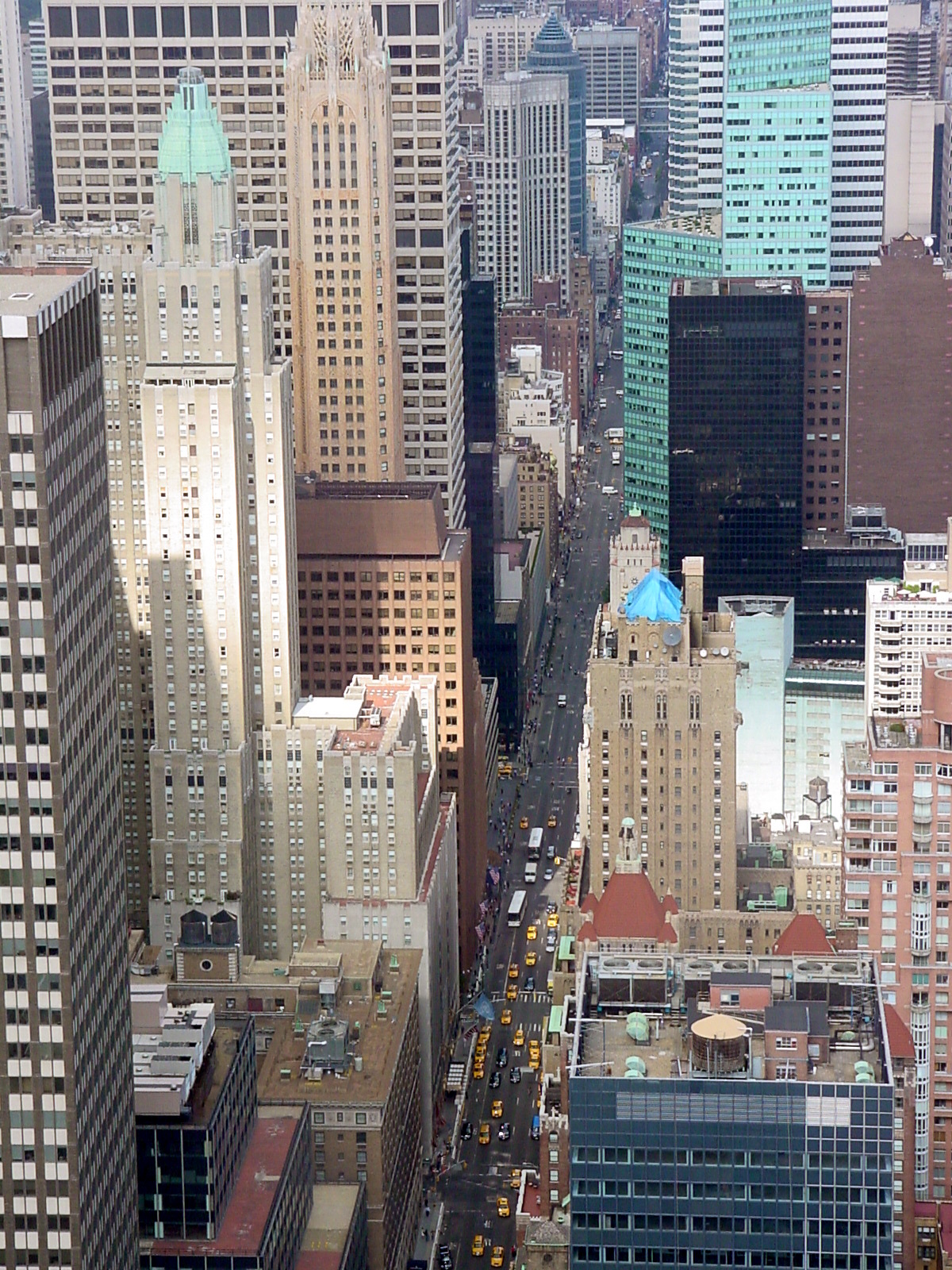 Looking north out of the Chrysler Building top floors down on Lexington Ave.